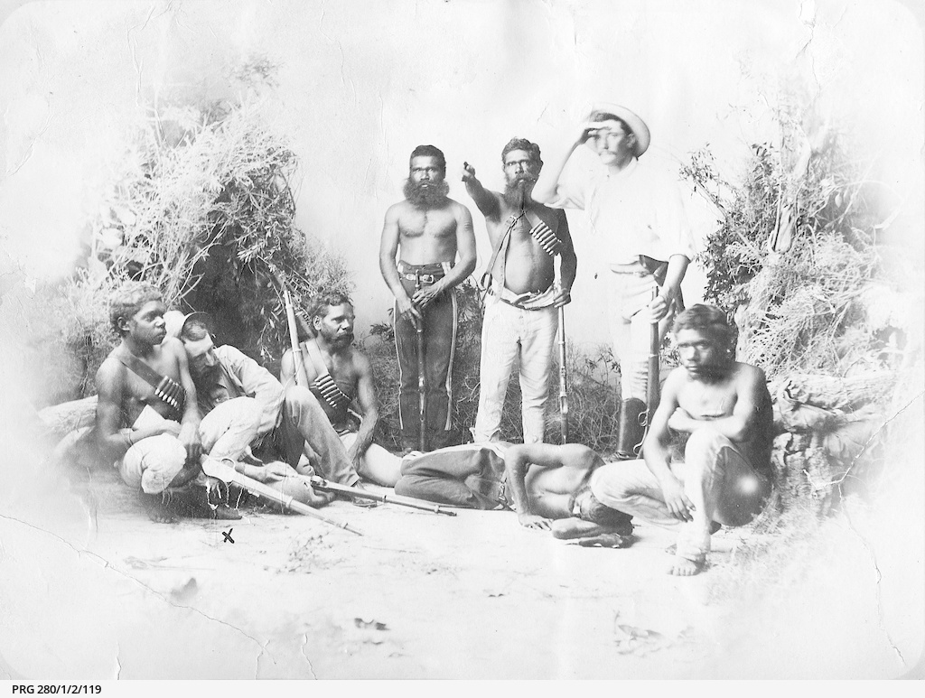 Mounted Constable Willshire, with members of the Aboriginal police contingent under his command; a staged studio setting - PRG-280-1-2-119